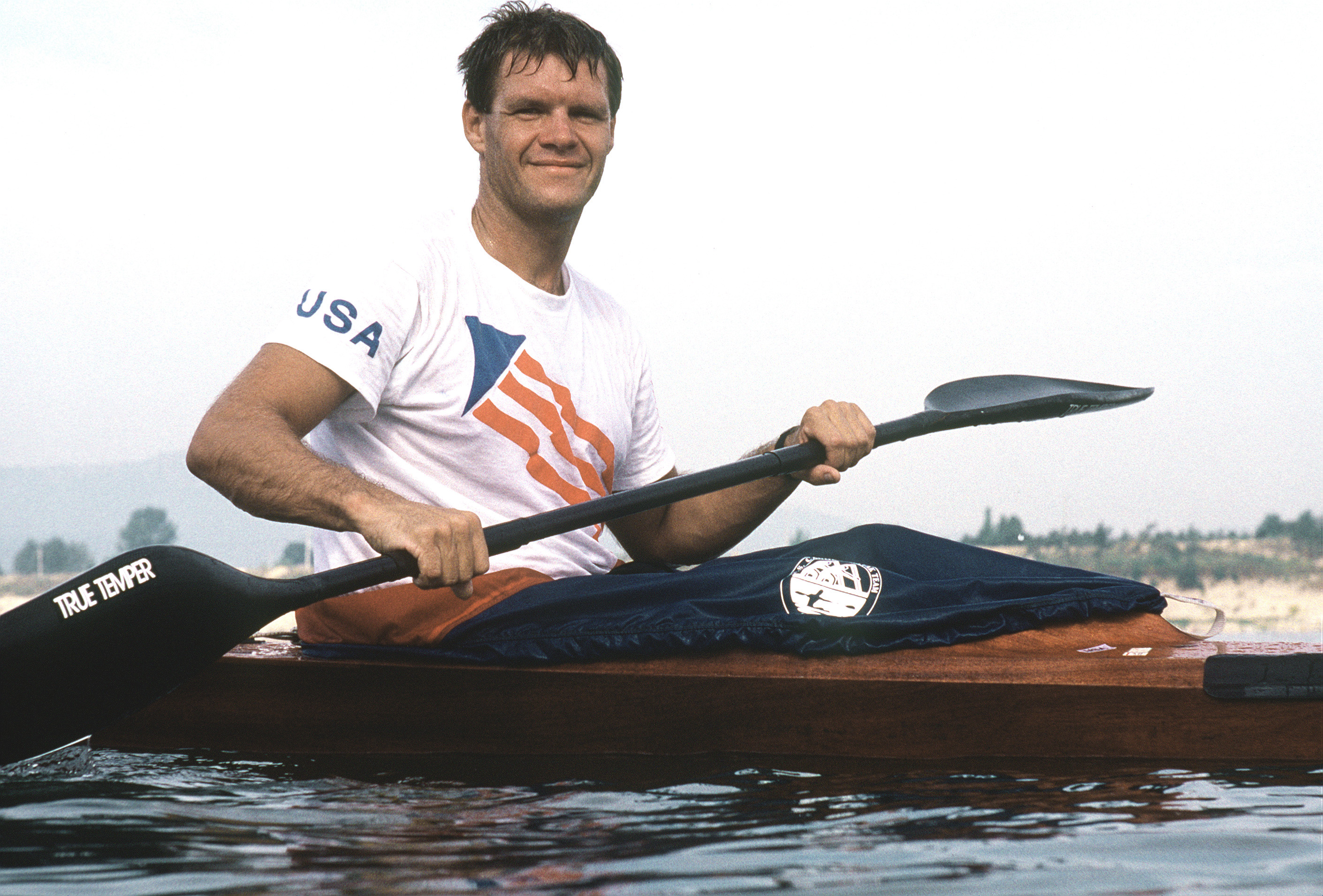 Spec. Juergen Hagemann, a member of the U.S. canoe and kayak team, practices on the Han River during the Summer Games of the 24th Olympiad. Hagemann is an alternate competitor in the K-4 1000-meter kayak event.